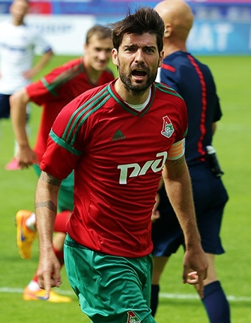 Vedran Ćorluka